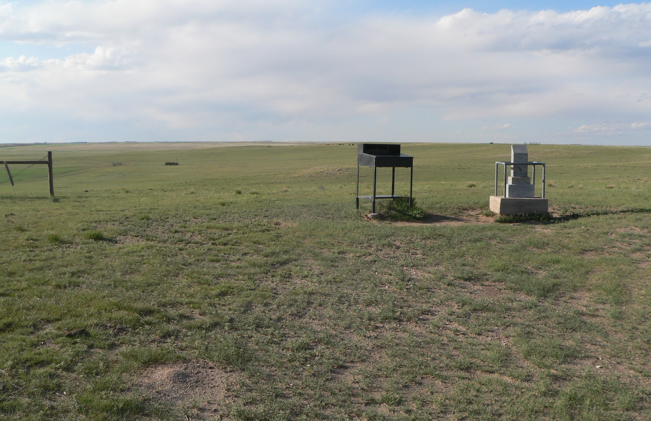 Panorama Point, located in southwestern Kimball County, Nebraska. Just right of center is a box containing a register; to the right of that is a monument marking the point as the highest in Nebraska. Camera is facing generally northward.